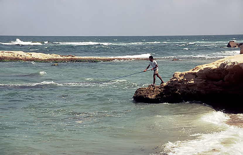 Angler at the sea coast, Abu Qir, Egypt